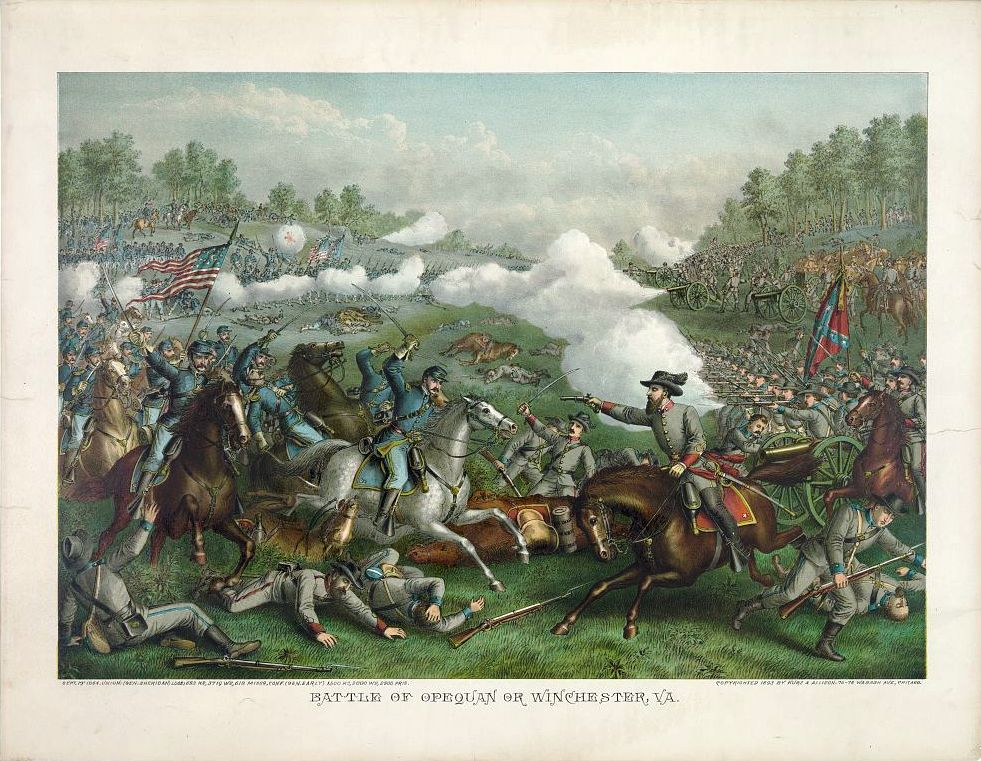 Lithograph of the Battle of Opequan or Winchester, Va.